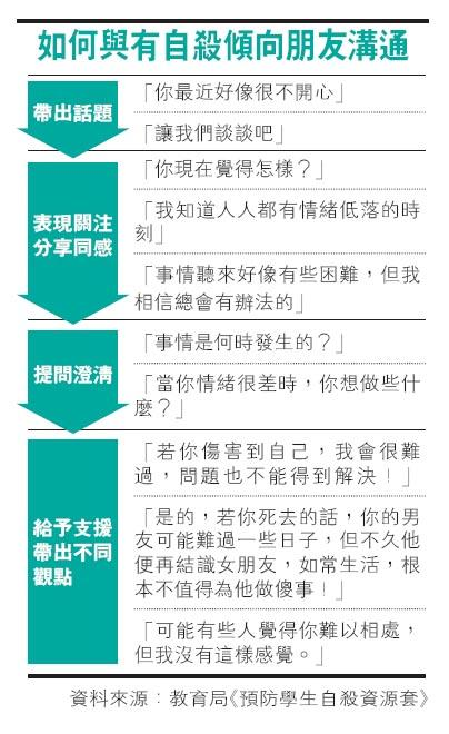 "The Package on Prevention of Student Suicide," Education Bureau, Hong Kong, 2010